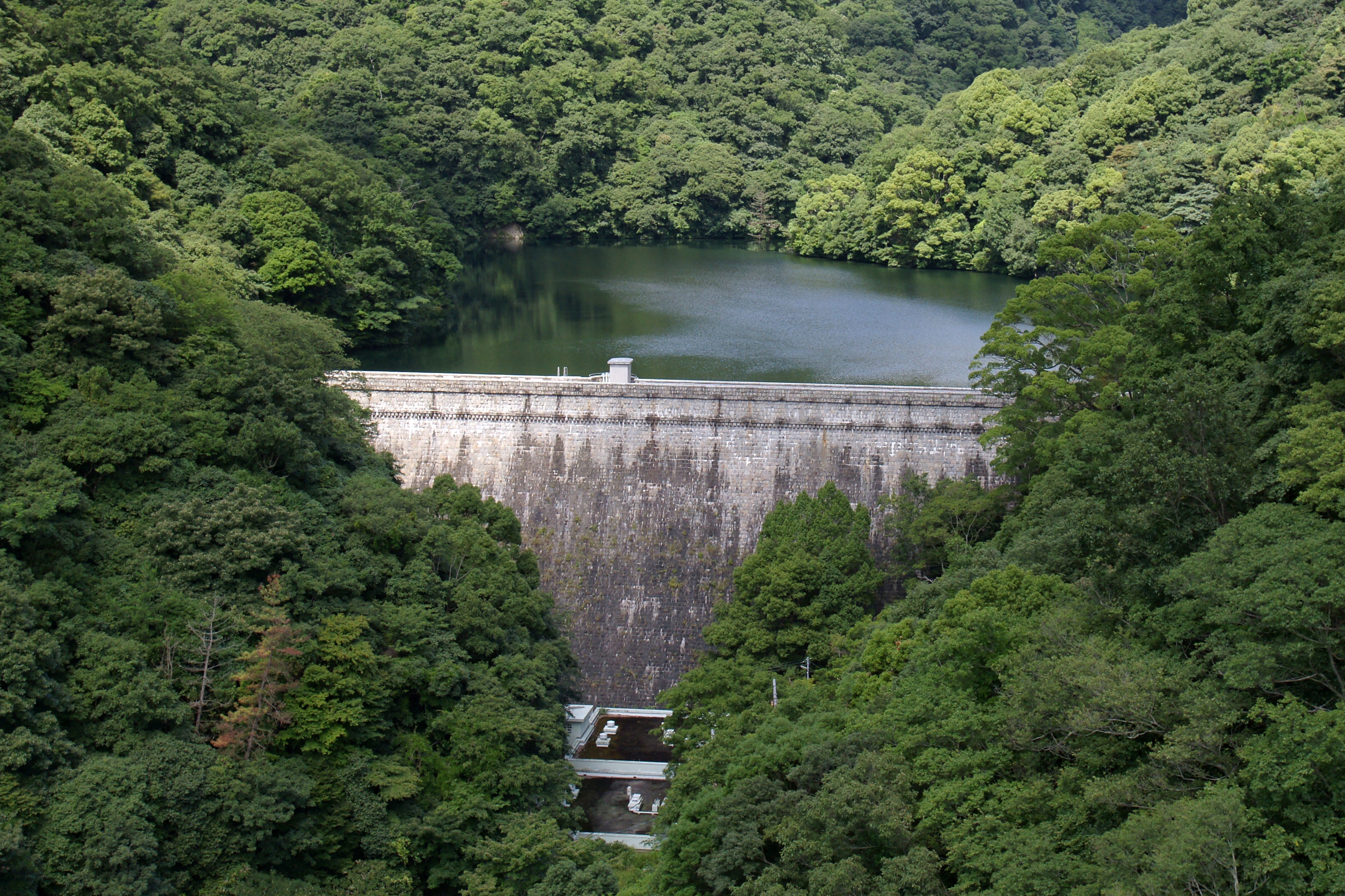 Nunobiki dam in Kobe, Hyogo prefecture, Japan